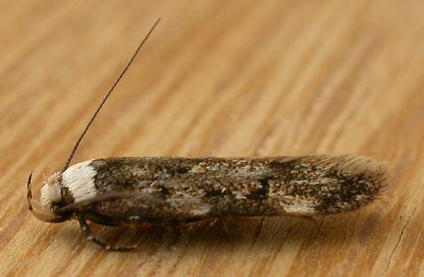 January 2009, Aranda (Australian Capital Territory, Australia)